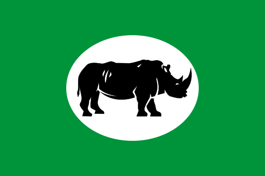 State flag of Central Equatoria in South Sudan and formerly Sudan.